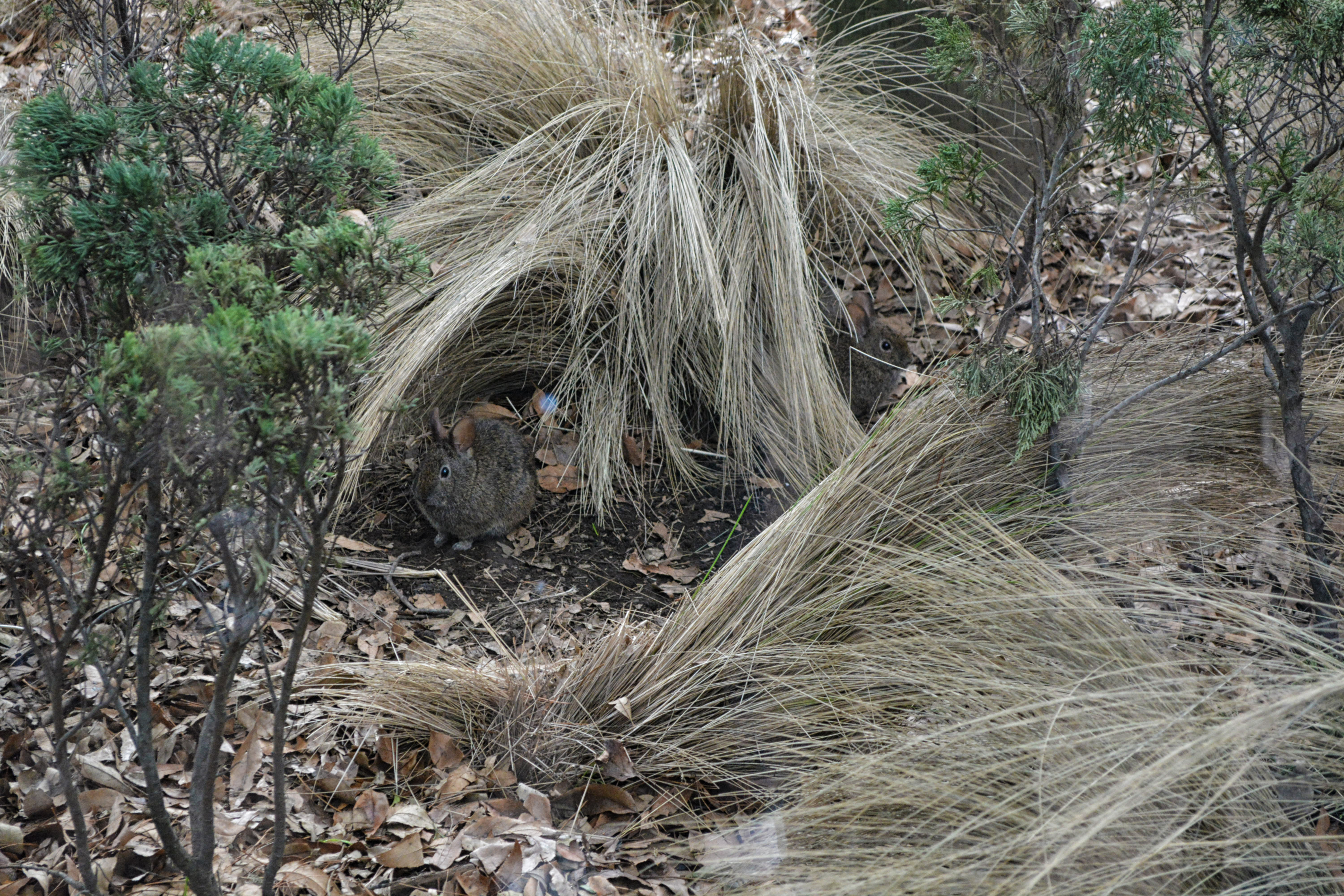 Volcano rabbit (Romerolagus diazi), also known as teporingo or zacatuche, is a small rabbit that resides in the mountains of Mexico. Chapultepec Zoo, Mexico City.